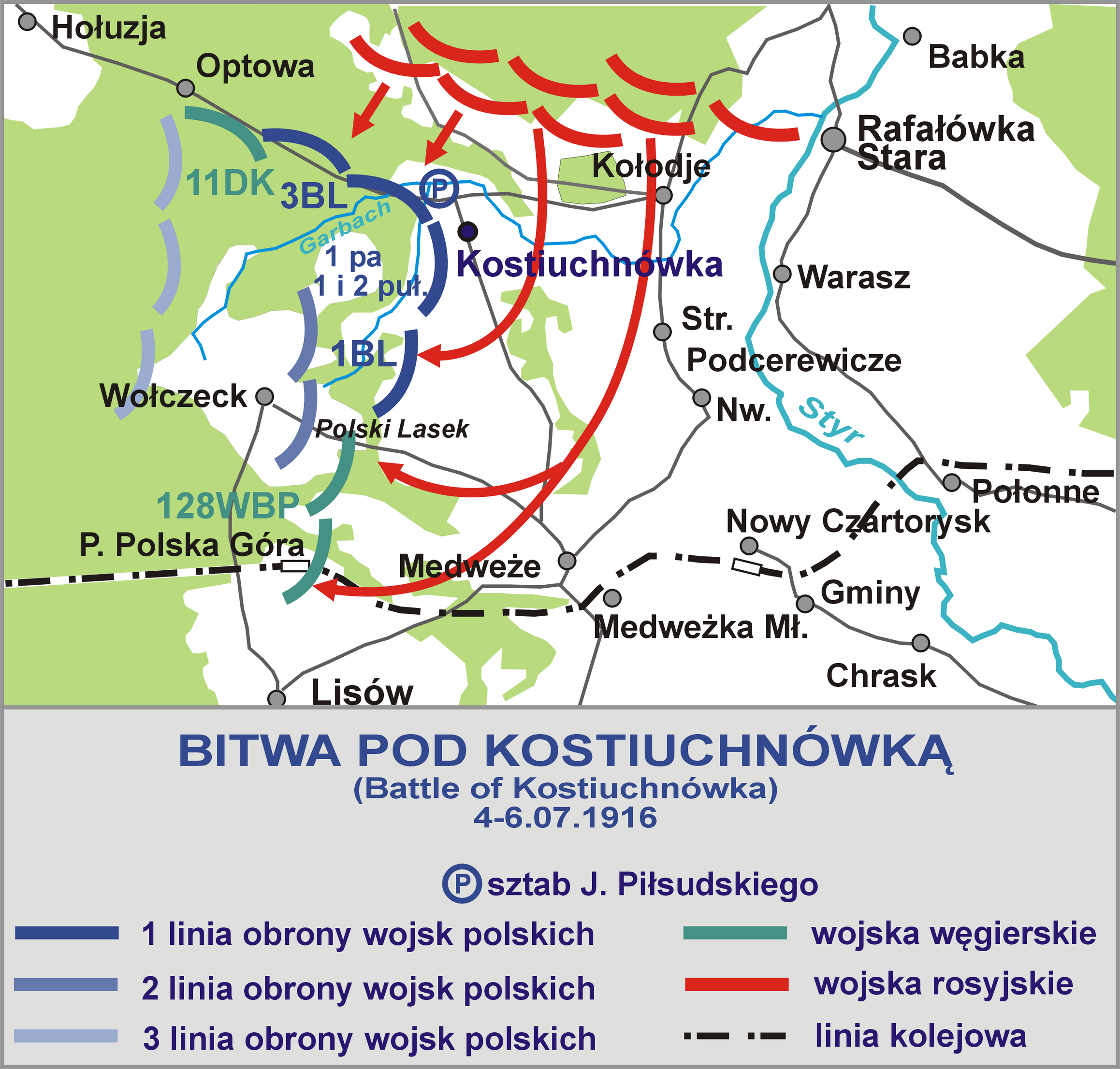 Battle of Kostiuchnówka (4-6.07.1916)